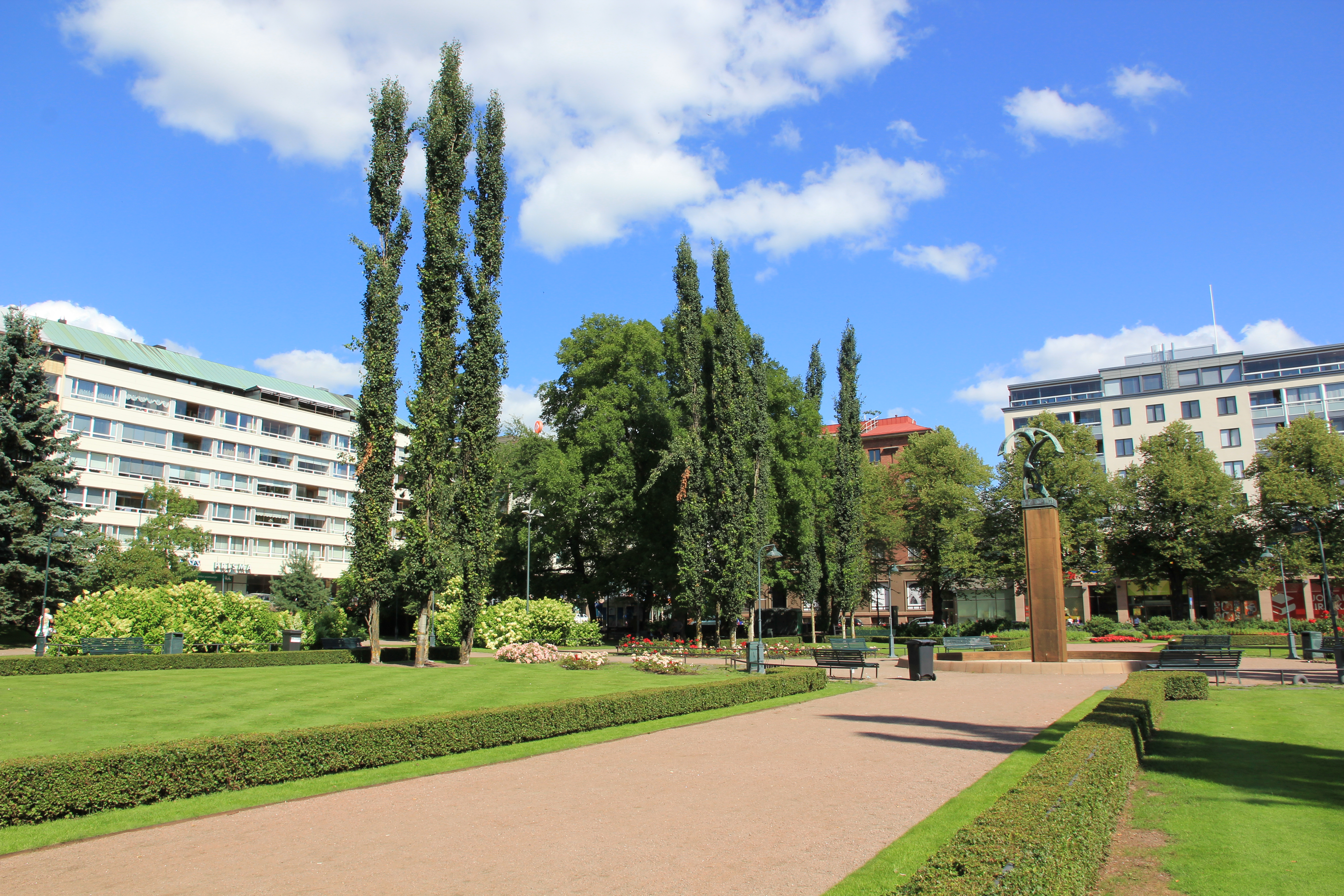 Sibeliuksenpuisto park in Kotka. Kotkat statue by Jussi Mäntynen (1886-1978).